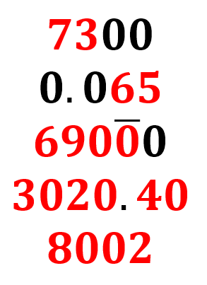 Example of significant figures